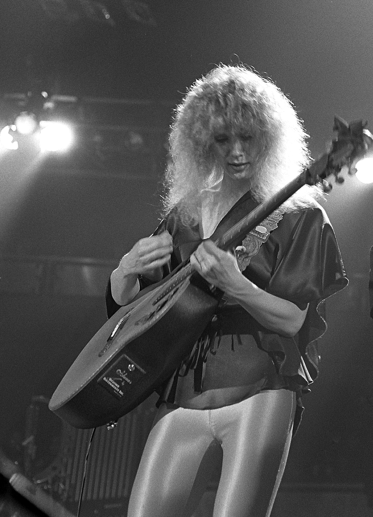 Nancy Wilson of the American rock band Heart